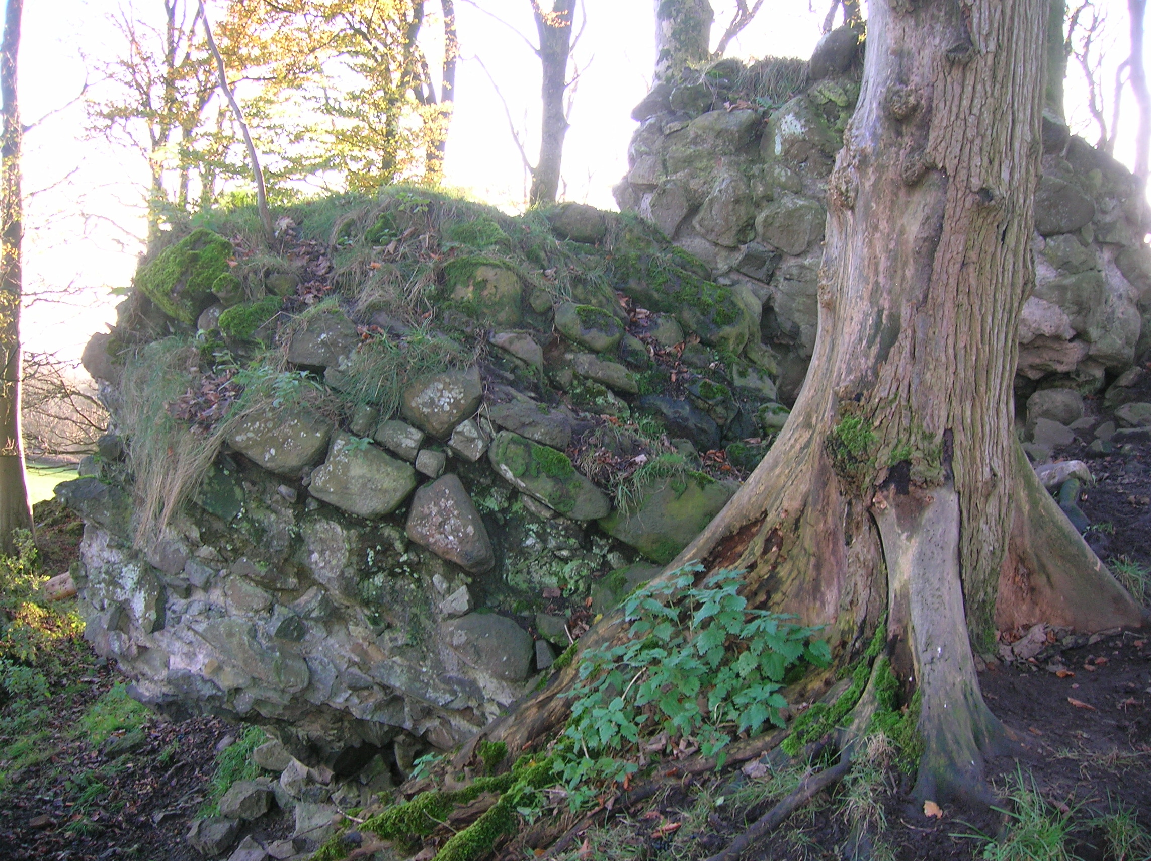 Substantial masonry block at Polnoon Castle, East Renfrewshire, Scotland.